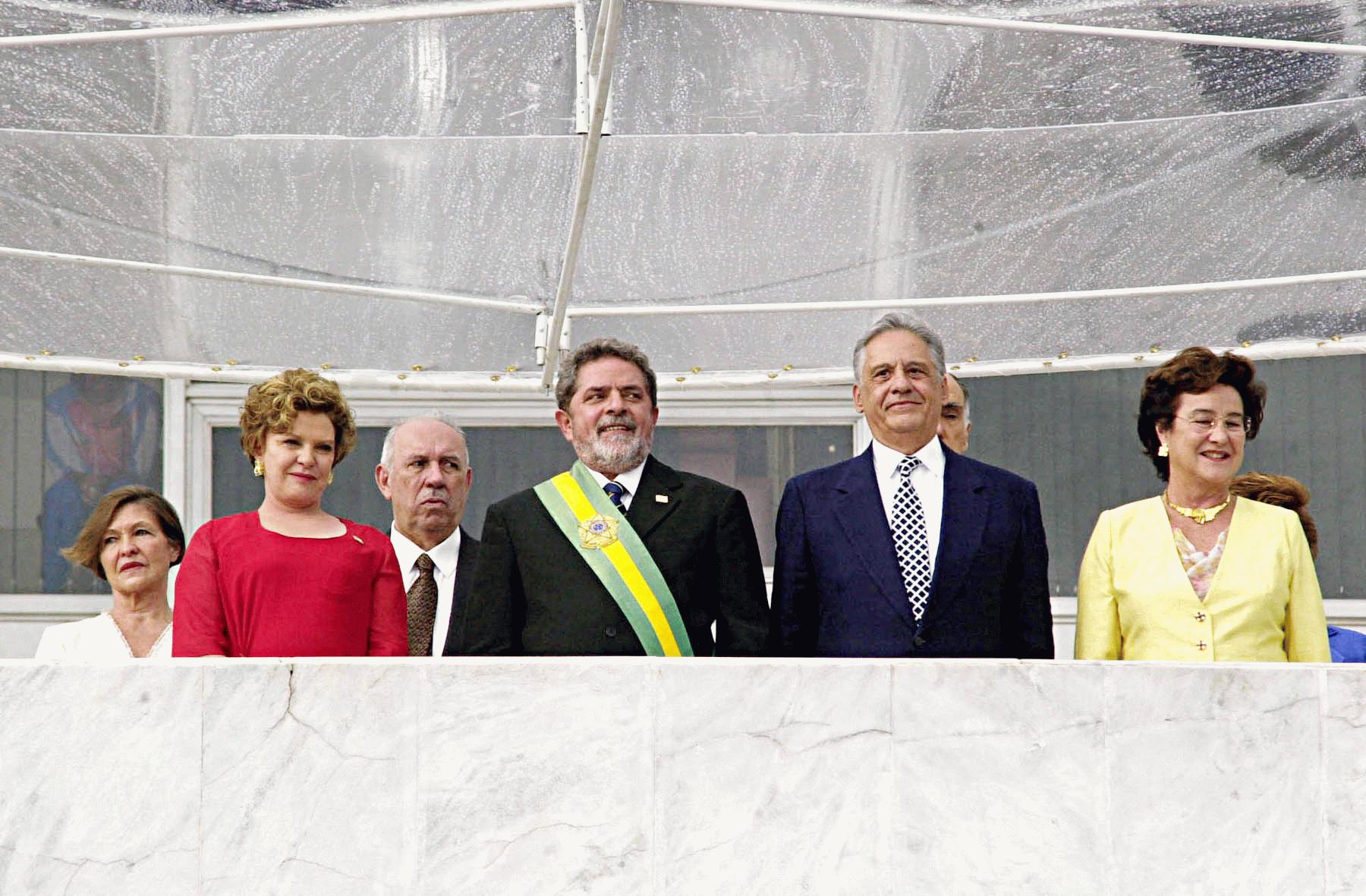 President Luiz Inácio Lula da Silva and wife Marisa Letícia, President Fernando Henrique Cardoso and wife Ruth Cardoso, at the Parlatorium of the Planalto Palace.